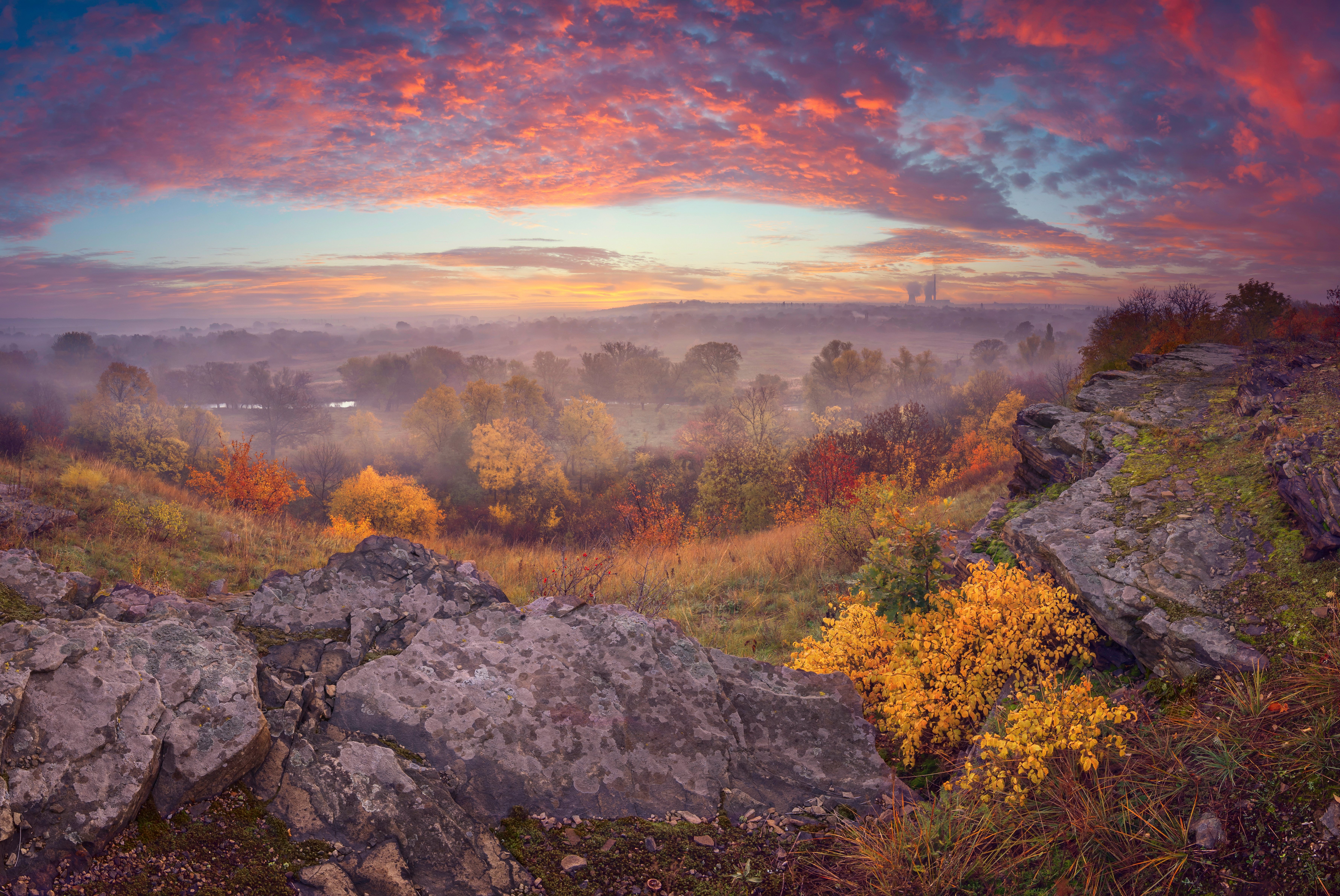 Morning Palette. Zuivskyi Regional Landscape Park, Donetsk Oblast